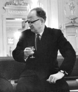 Nikolay Belokhvostikov at the Nobel Prize ceremonies